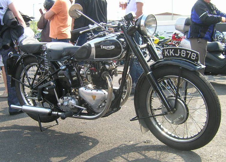 Short-lived economy post-war 350cc twin designed by Edward Turner was not popular compared to his 500cc Speed Twin and 650cc Thunderbird twins.